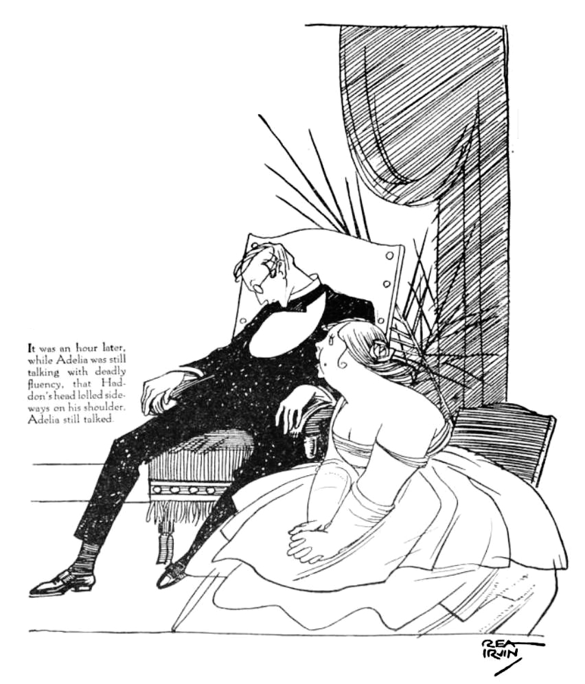 Illustration by Rea Irvin for the short story "Why He Married Her: The Romance of a Master Mind" by Ellis Parker Butler, published in The Green Book magazine, volume 15, in 1916.